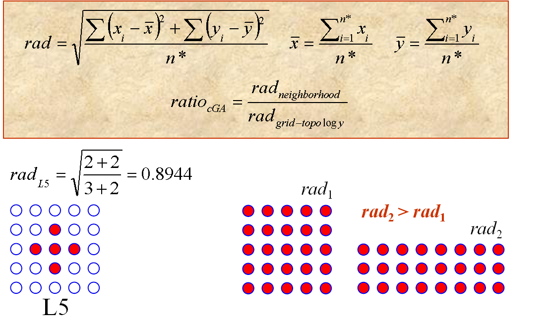 definition of radio and ratio to characterize a cellular EA